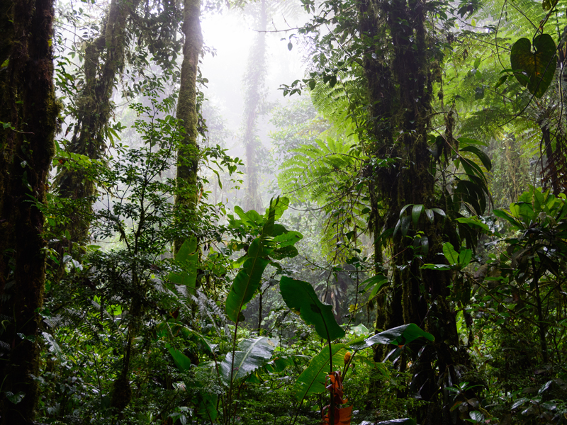 Santa Elena Cloud Forest Reserve, Costa Rica